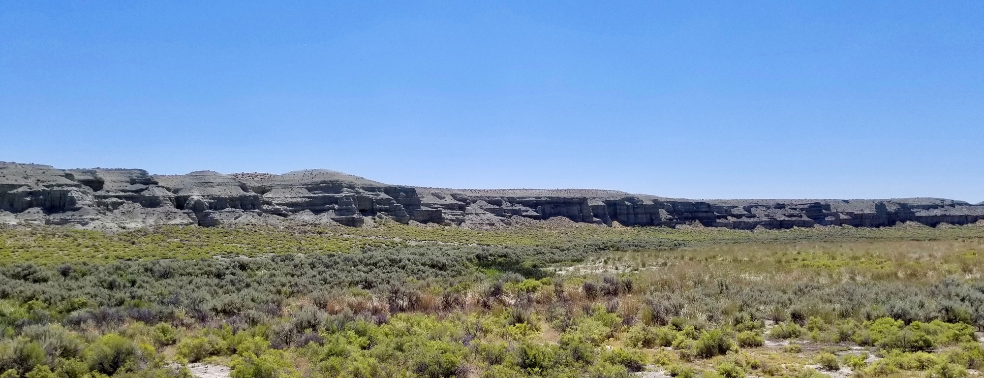 Camp Henderson Locale, photo by John Stanton 19 Jul 2017